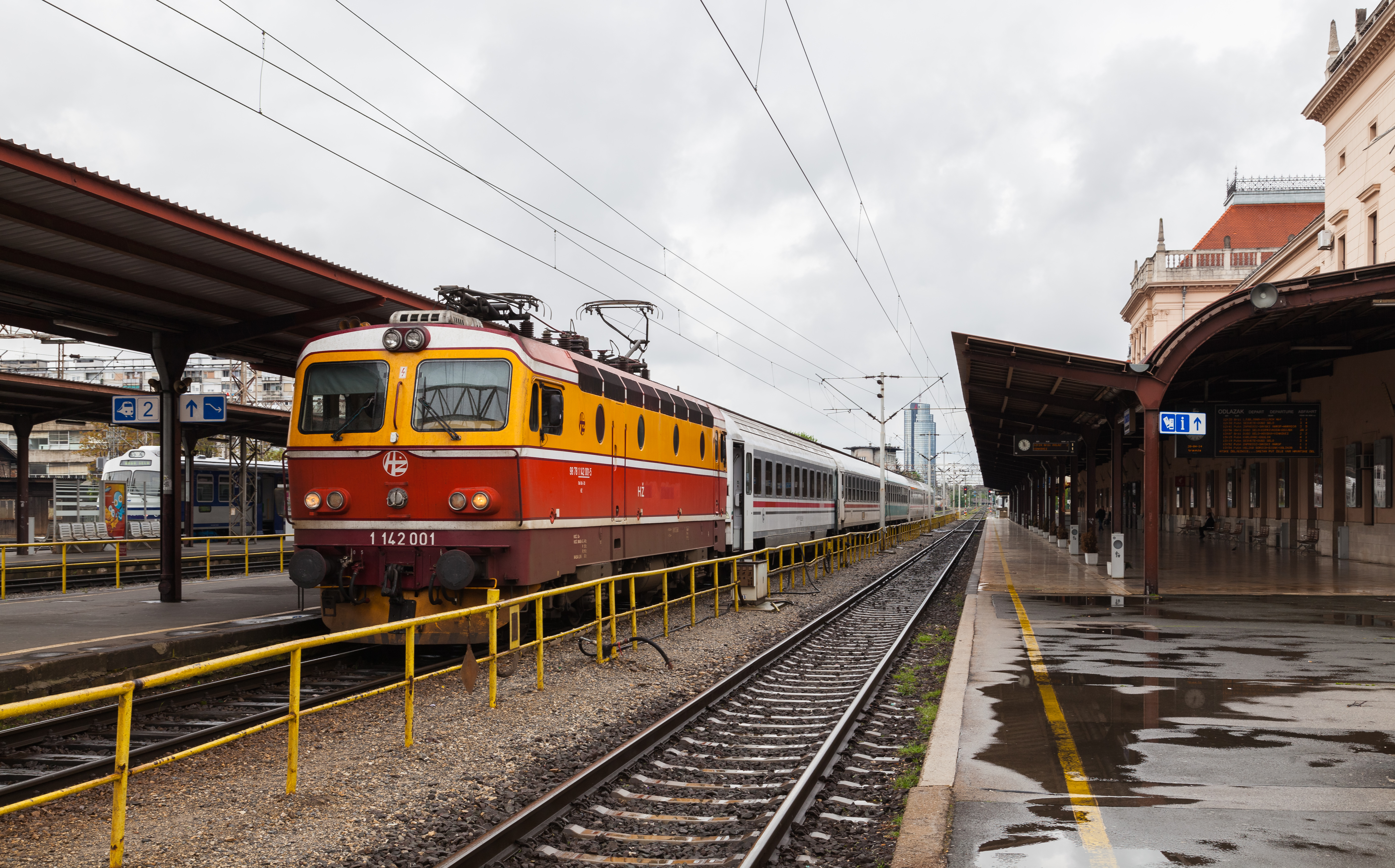 Main Railway Station, Zagreb, Croatia